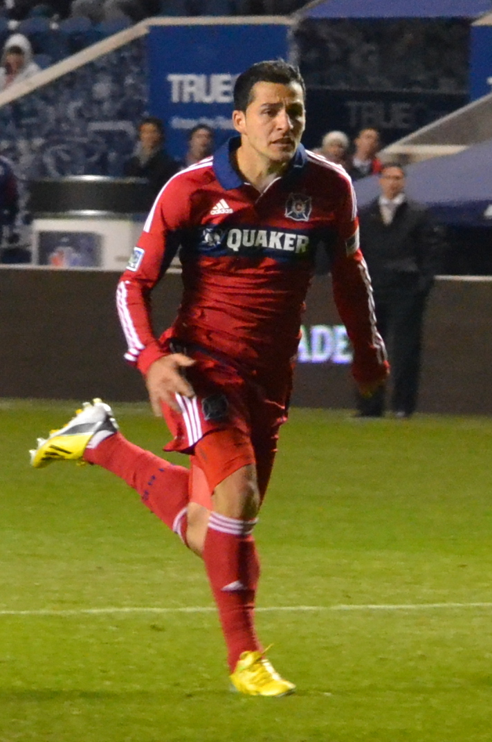 Dilly Duka of Chicago Fire.